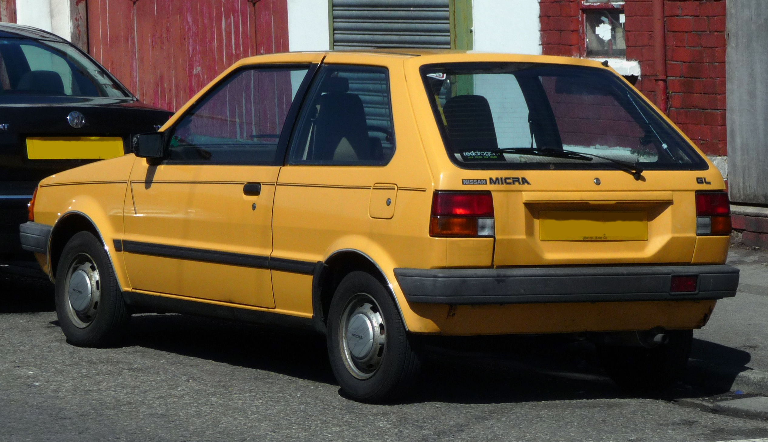 1984 Nissan Micra GL (K10). While '80s Micras in general survive well, an early example with smaller rear light clusters as seen here is a rarity.